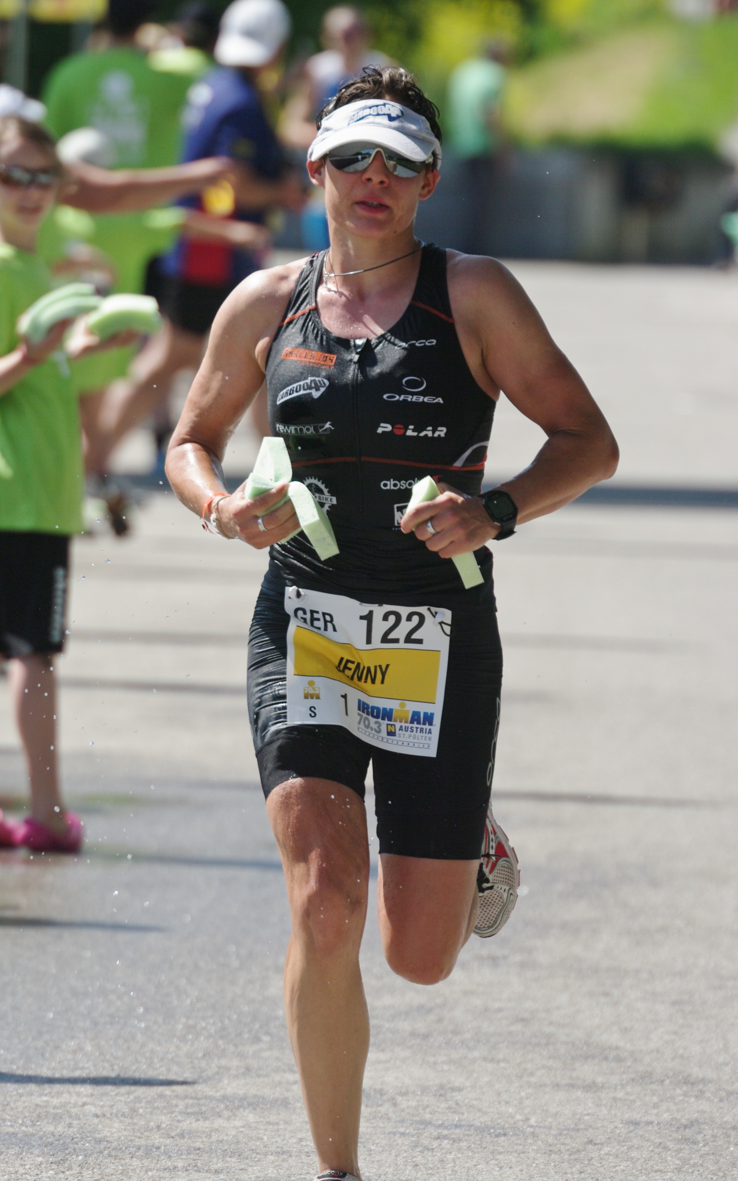 German triathlete Jenny Schulz in the Ironman 70.3 Austria on 20 May 2012 in St. Pölten.